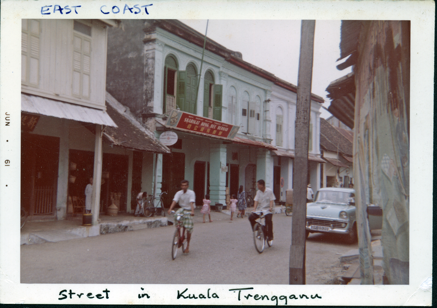 East Coast street view, Kuala Terengganu, June 1961